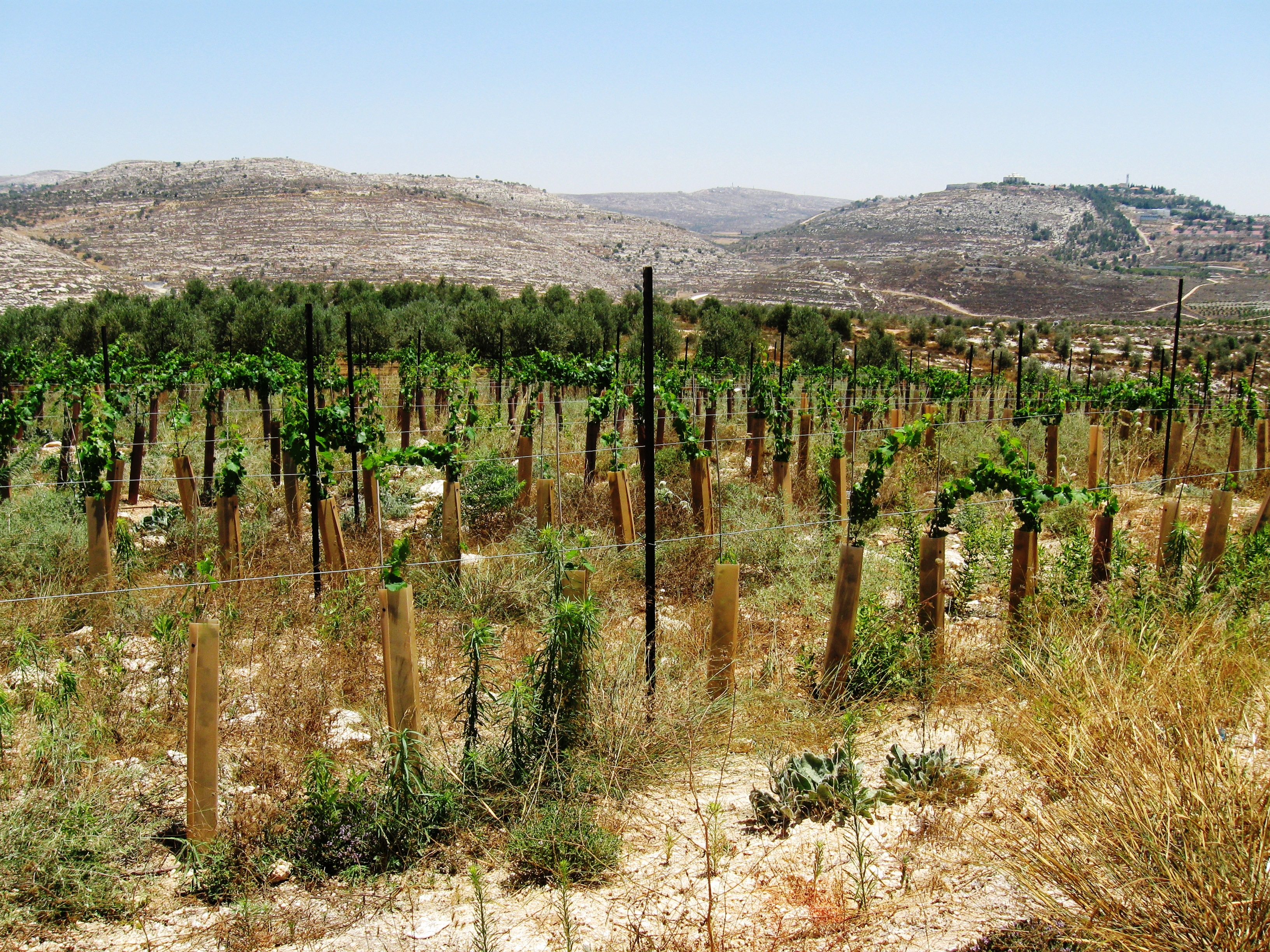 Ineyard_and_olive_grove__a__Givat_Arel